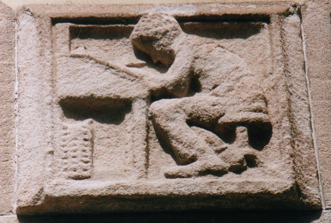 Statues of women, Tübingen, Germany.